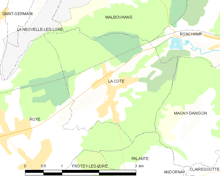 Map of French municipality